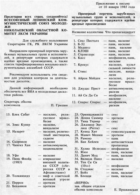 List of songs banned in the Soviet Union